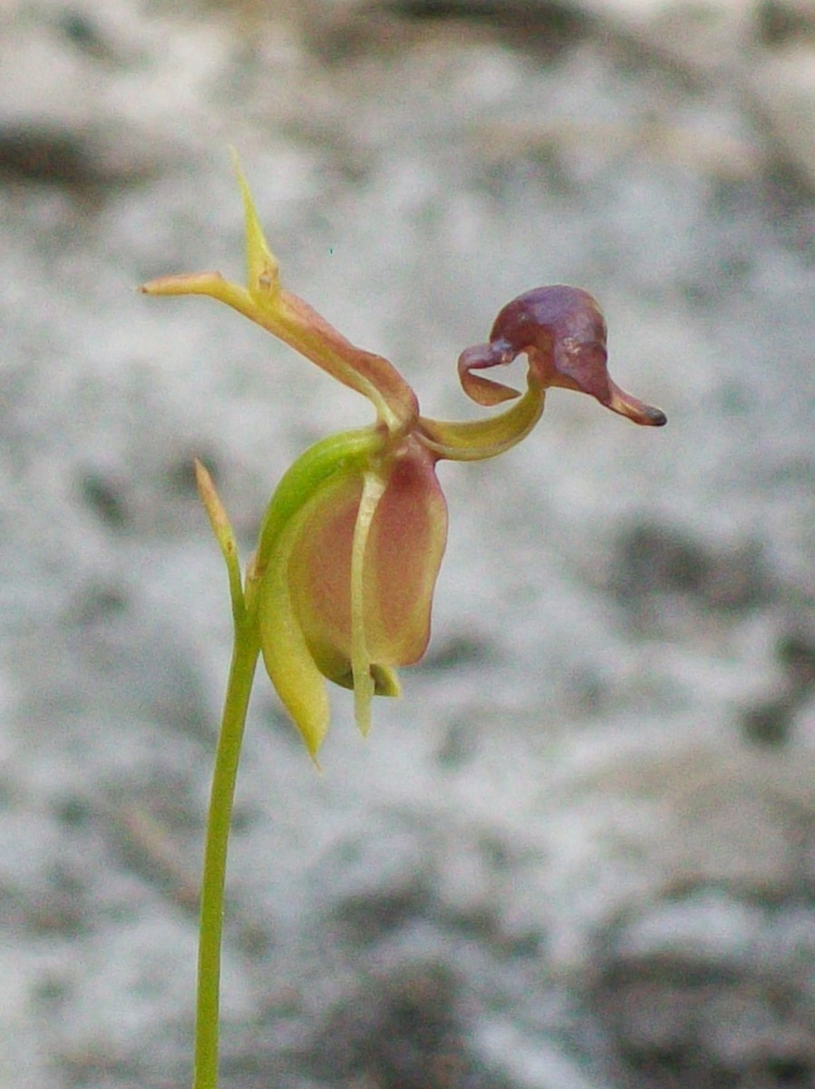 Flying Duck Orchid, Topham Track, Ku-ring-gai Chase National Park, Australia